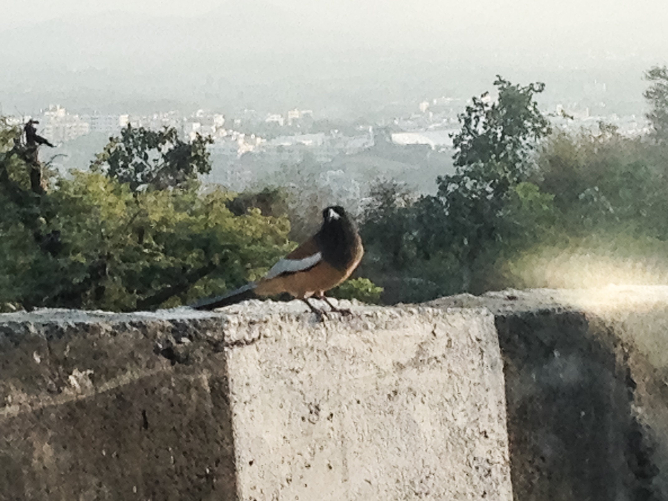 a bird in the protected forests near mount abu